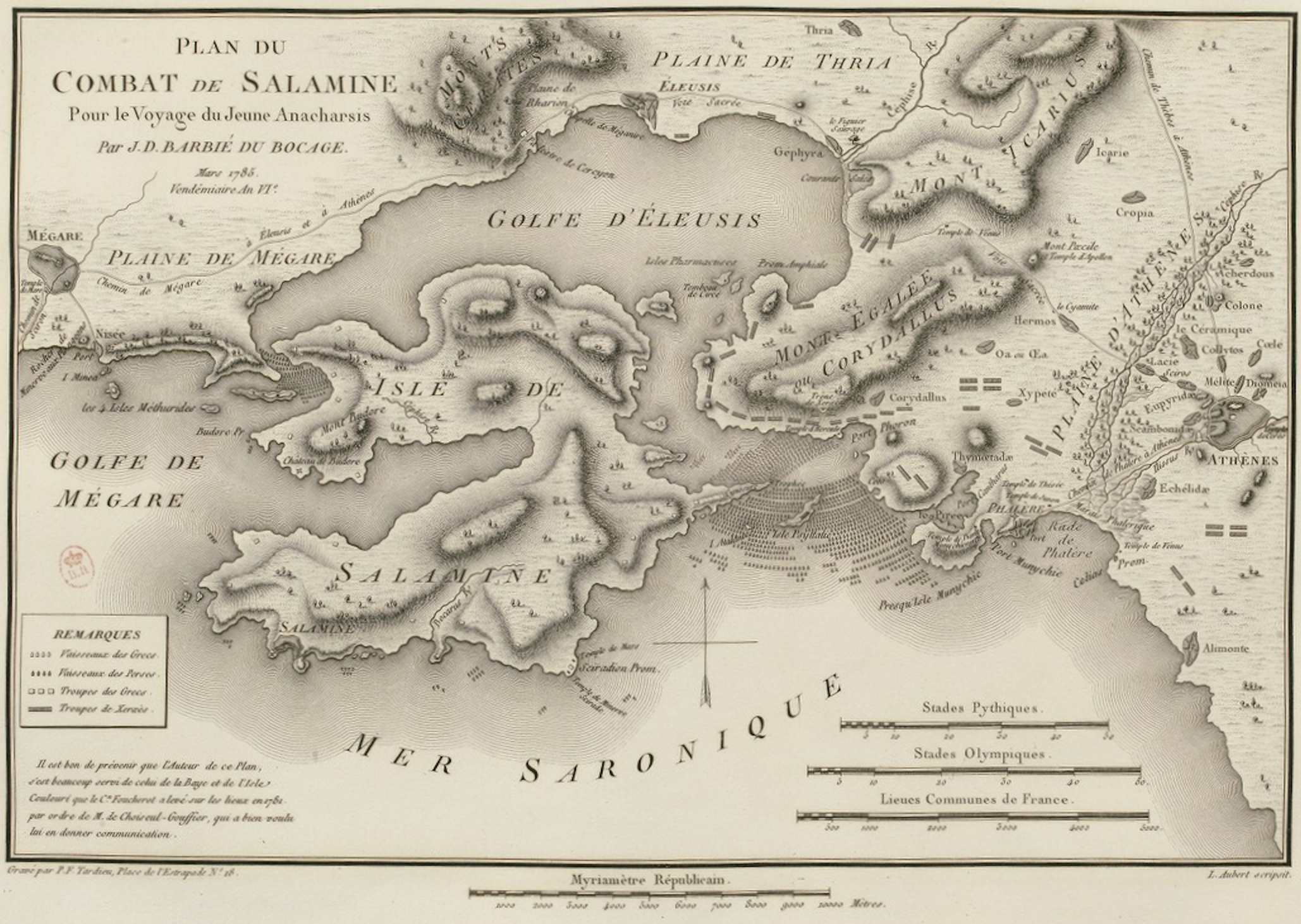 Battle of Salamis by Barthélemy 1798